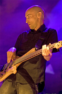 Jeroen van Veen @ Bêkefeesten (Bathmen, Holland)